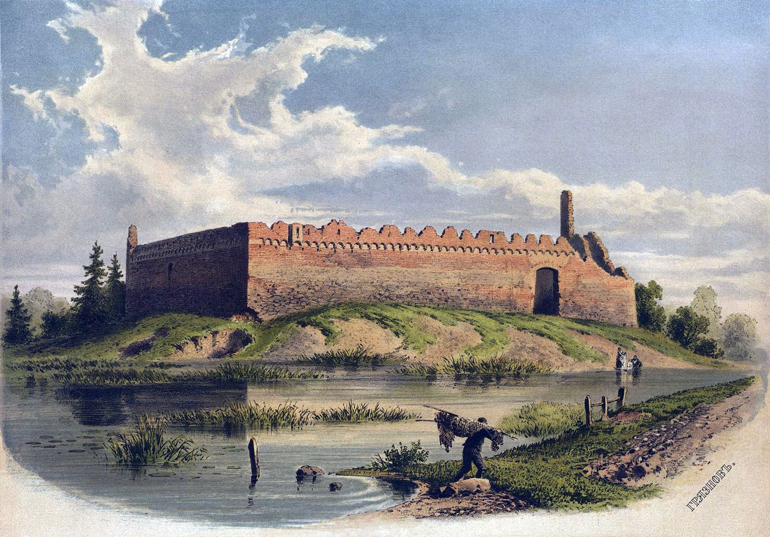 Giedymin Castle in Lida